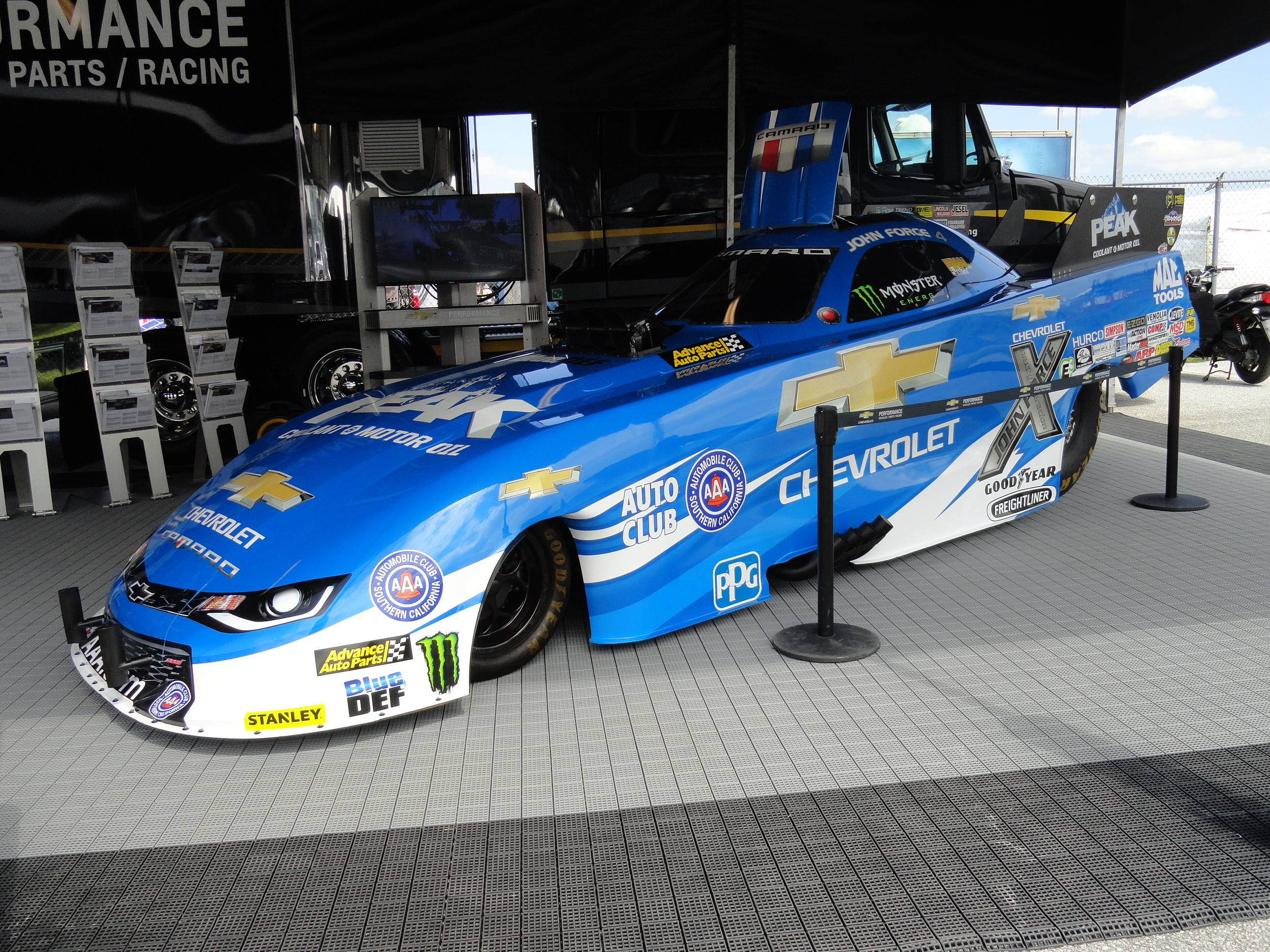 John Force Peak Chevrolet Funny Car at the Chevrolet Corral of the 2017 Indianapolis 500.